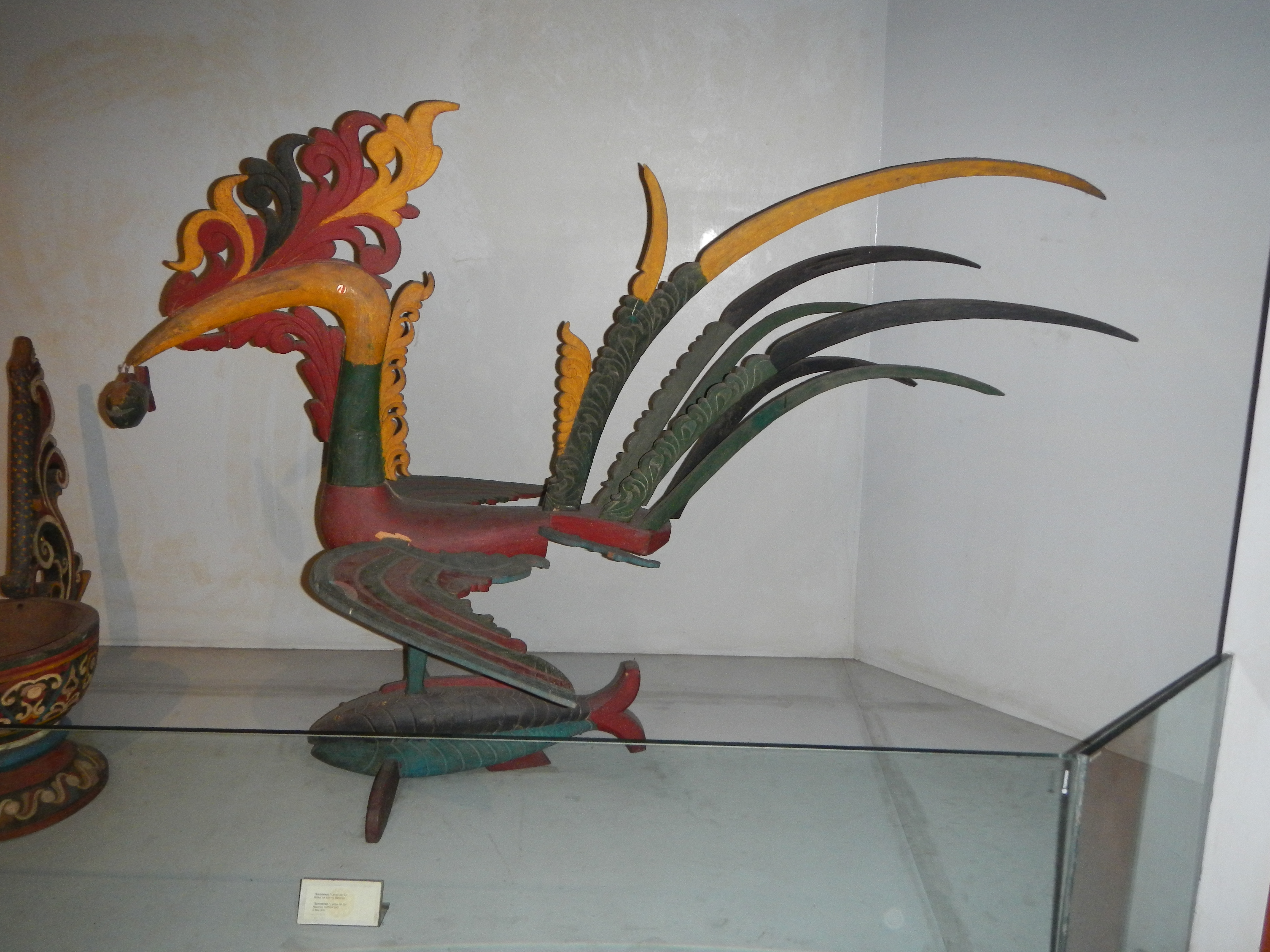 UploadWizard photos (general description of the landmarkds, angle by angle photography of the city, town, rivers, bridges and interesting points) - Museum of the Filipino People [1] located in the Agrifina Circle, Rizal Park, Manila [2] adjacent to the main National Museum building which houses the National Art Gallery, the building formerly housed the Department of Finance[3], it also houses the wreck of the San Diego, ancient artifacts, and zoology divisions including the Ifugao house in the ground floor - part of the List of museums in Metro Manila[4] and part of the National Museum of the Philippines[5].